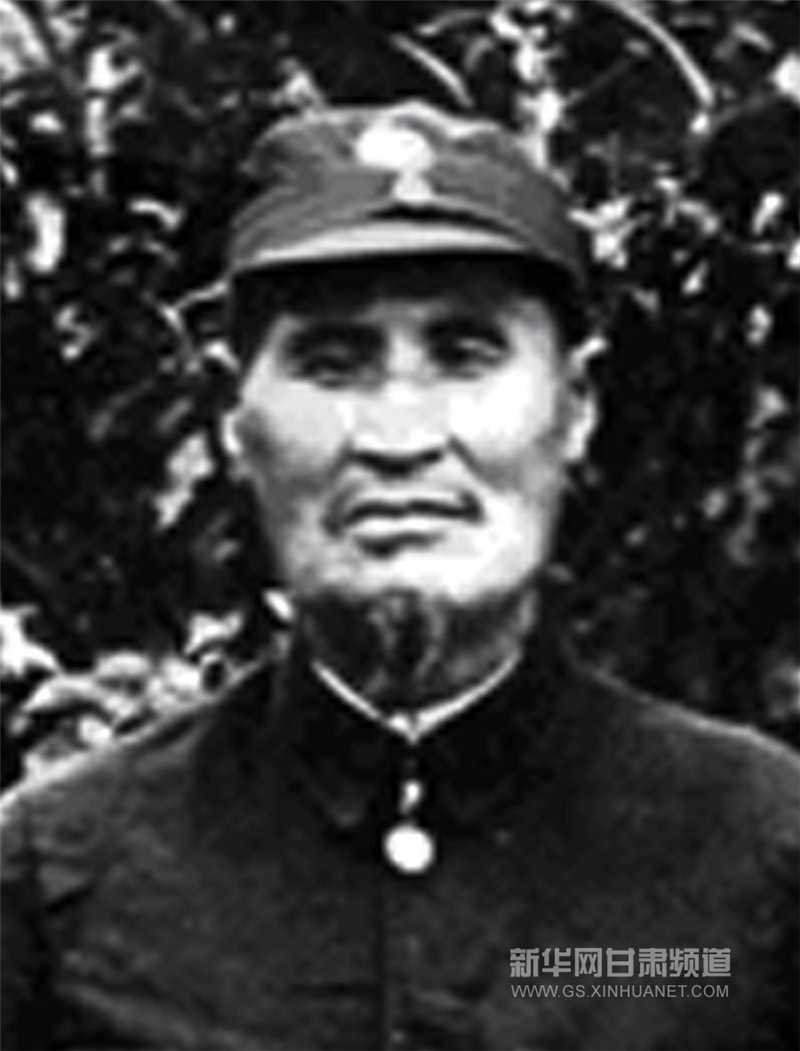 The Hui Muslim General Ma Biao (1885–1948). A veteran of the Boxer Rebellion, Sino-Tibetan War, and Second Sino-Japanese War. Xinhua has no copyright over the work. It is a regular habit of China based websites to put watermarks on all images they host even if they have no copyright claims to it.